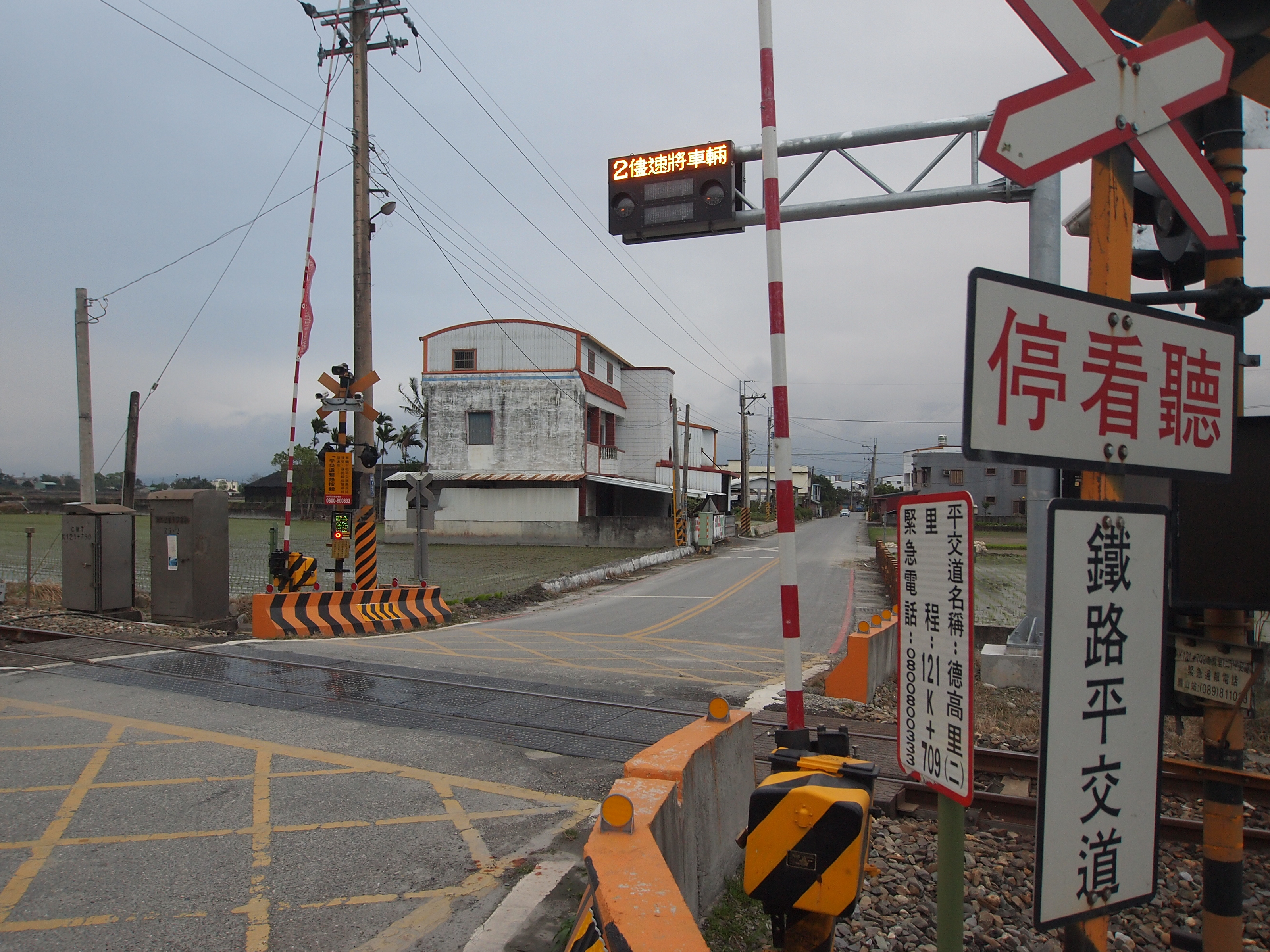 Degao Village (2) Level Crossing.